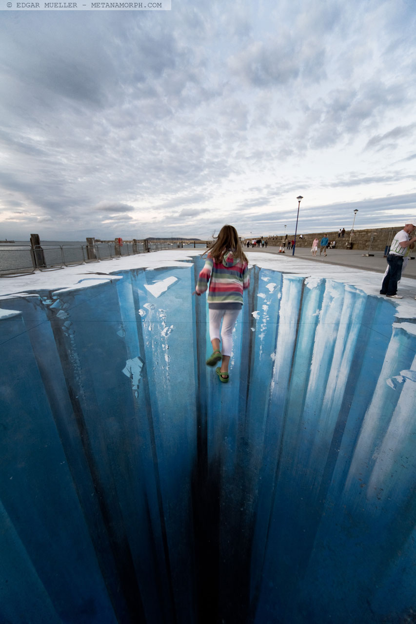 3D Street Art project by Edgar Müller